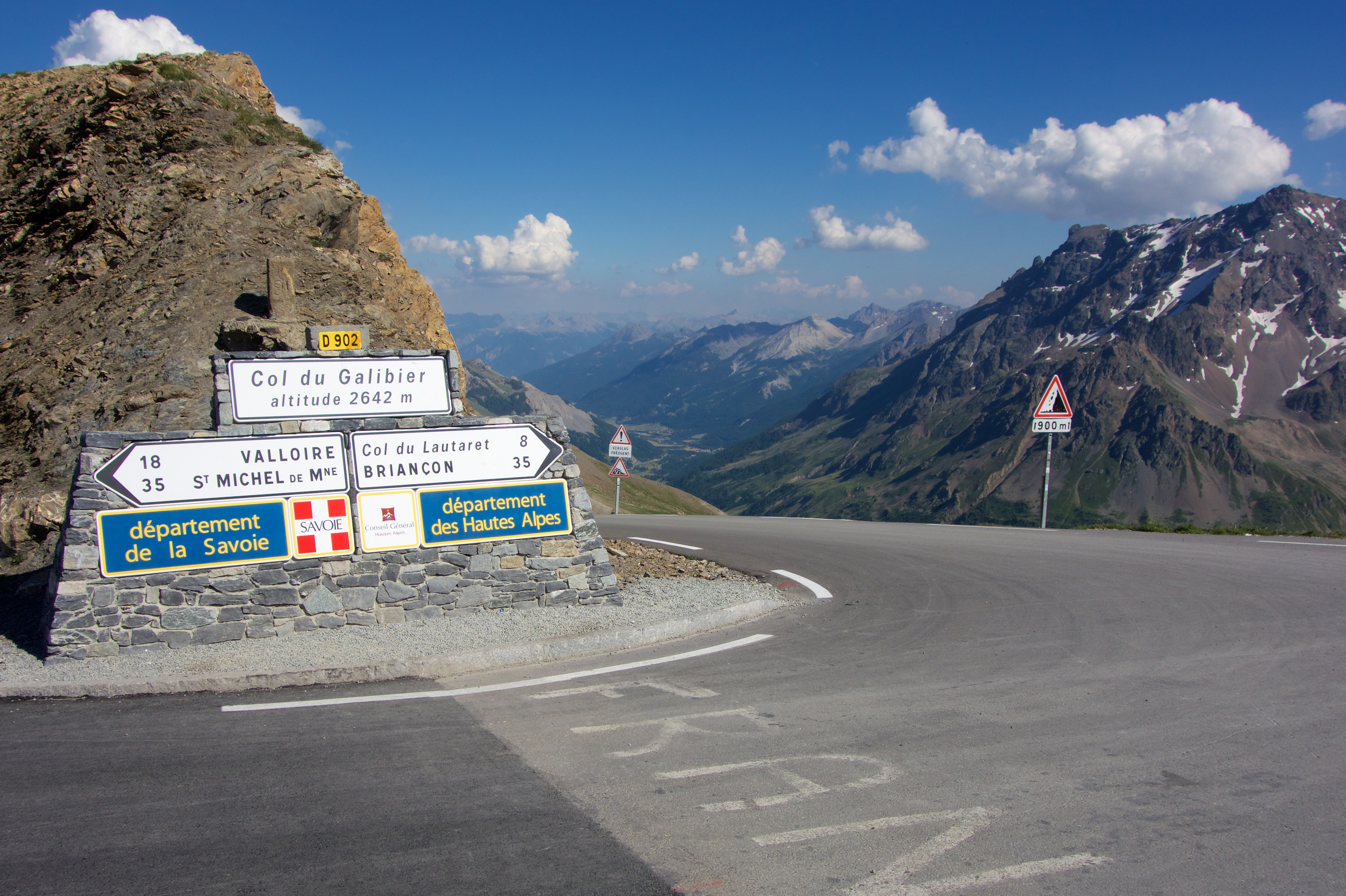 Signpost at the Col du Galibier.